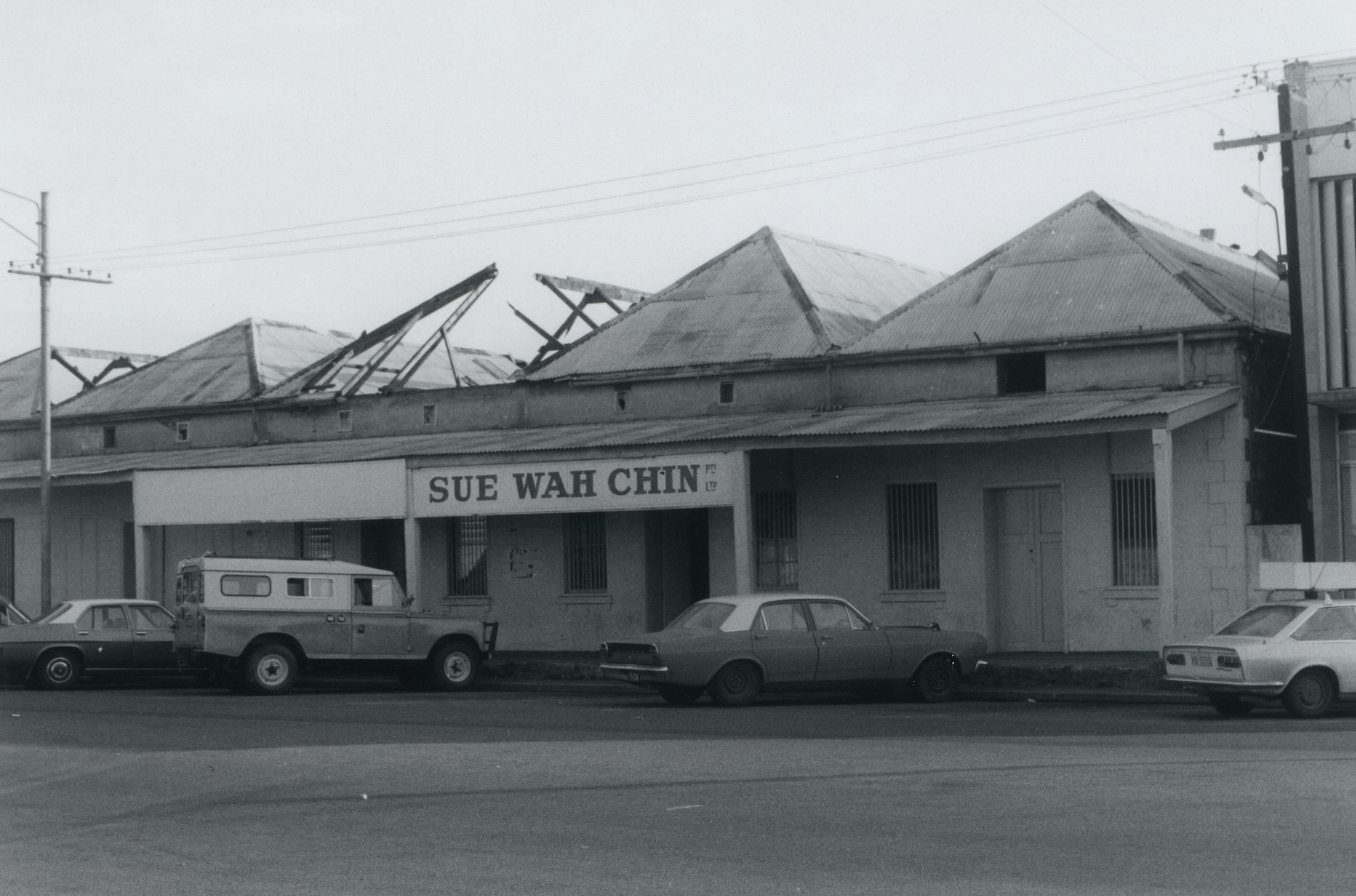 Sue Wah Chin building "The Stone houses", Cavenagh Street, originally built in 1889 by herbalist and merchant Kwong Sue Duk also known as Kwong See Tek showing roof damage caused by Cyclone Tracy. PH0238/0513